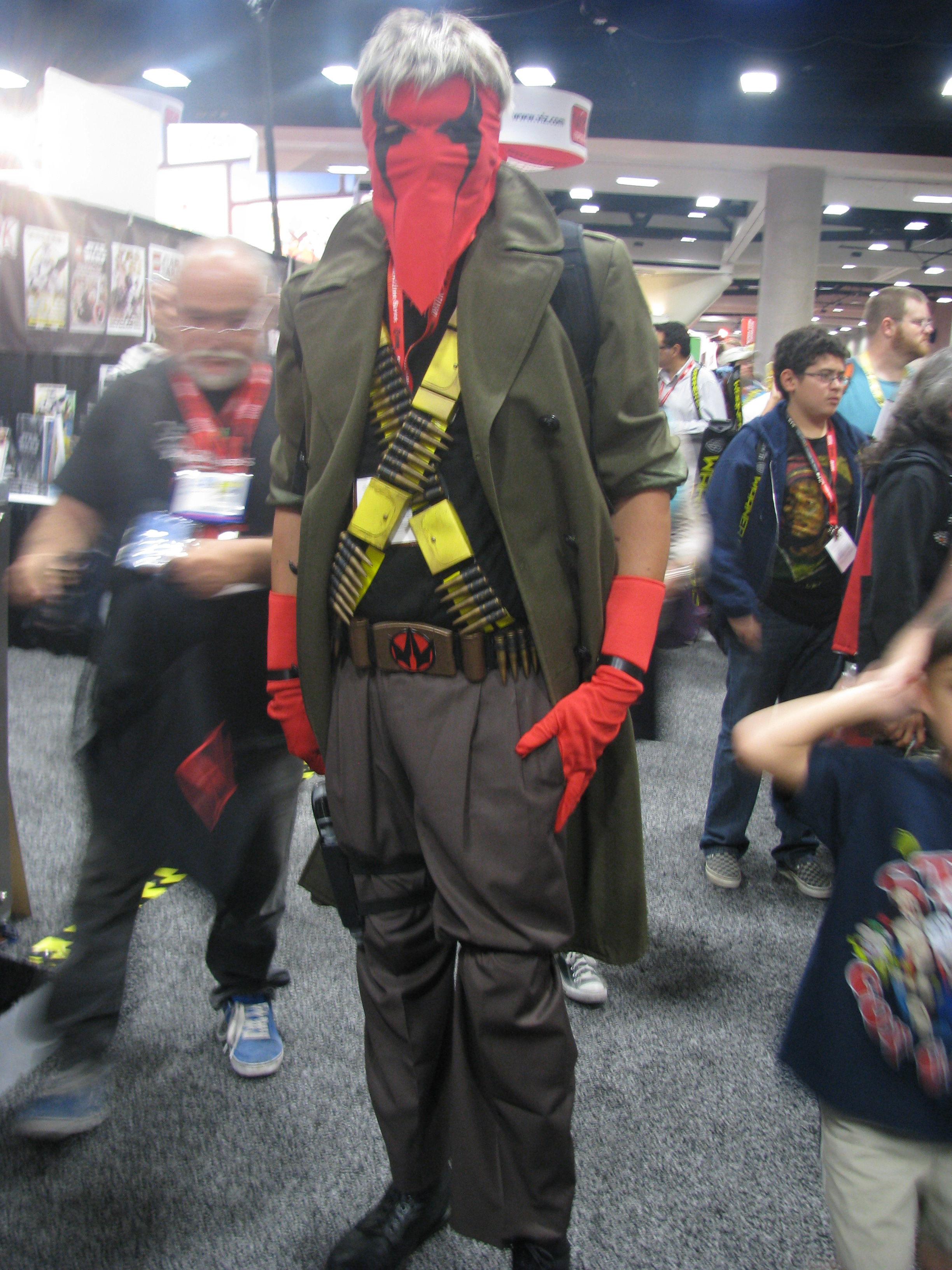 Cosplay at San Diego Comic Con (SDCC) 2011.